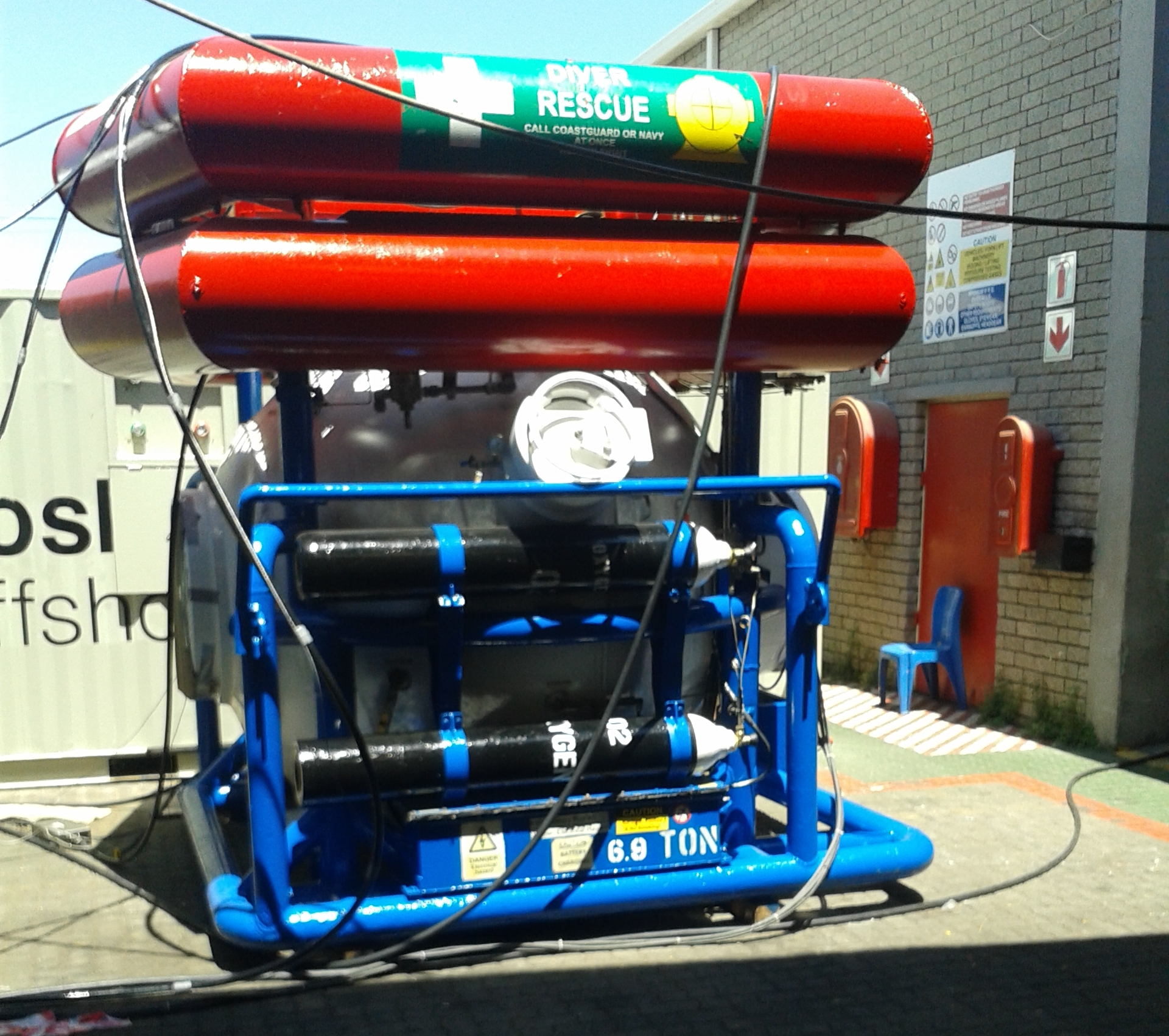 Small hyperbaric escape module being tested for leaks